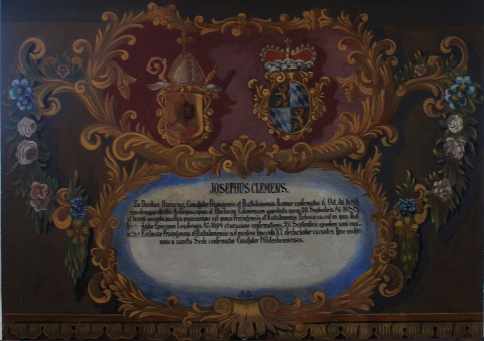 Wappentafel von Joseph Clemens von Bayern, Fürstbischof von Freising, im Fürstengang zwischen Fürstbischöflicher Residenz und Freisinger Dom. Links das geistliche, rechts das persönliche Wappen, darunter ein lateinischer Text mit kurzer Biographie.